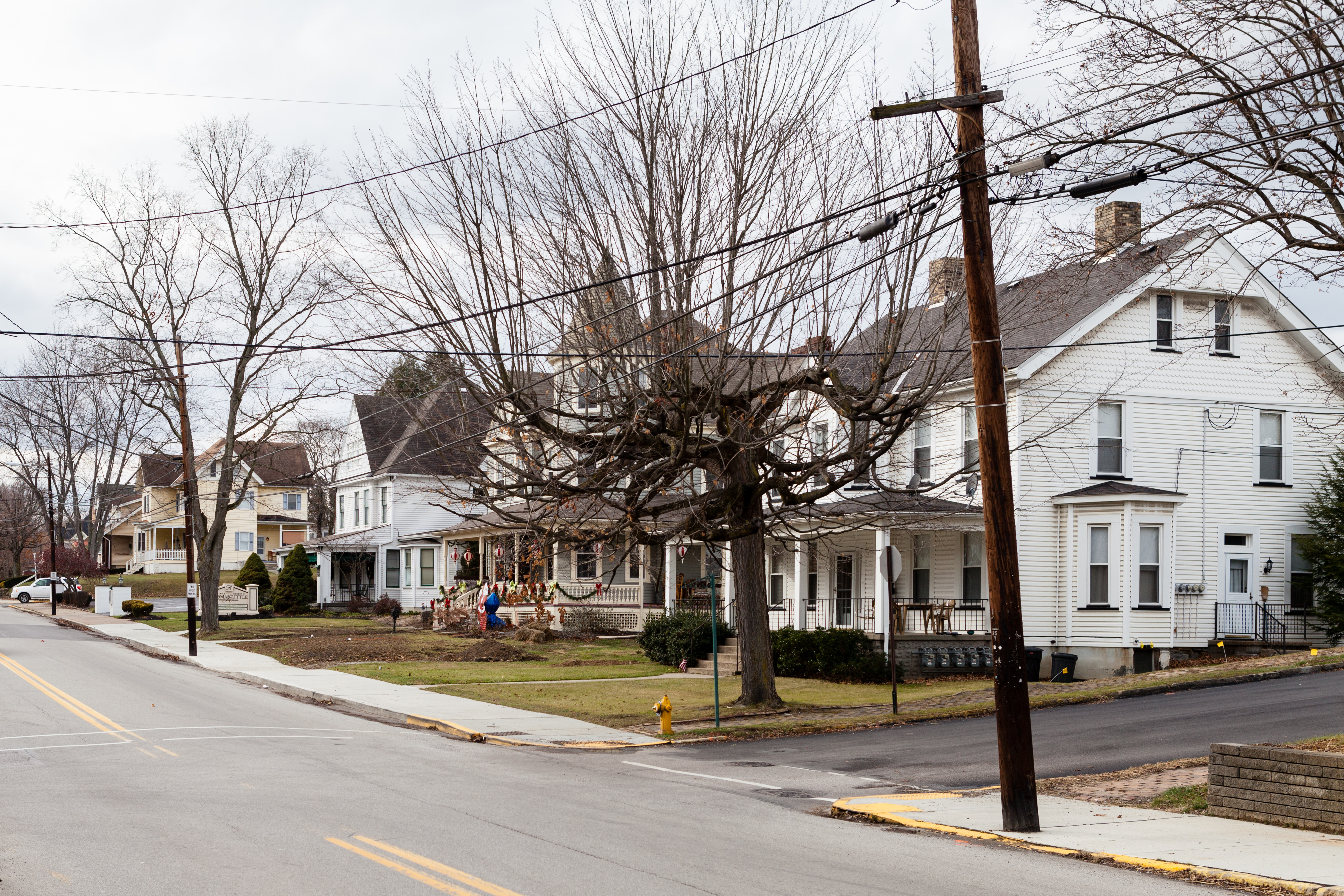 Looking west on W. Lincoln Ave near 3rd St, McDonald, Pennsylvania.